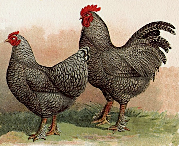 Mechelen cuckoo